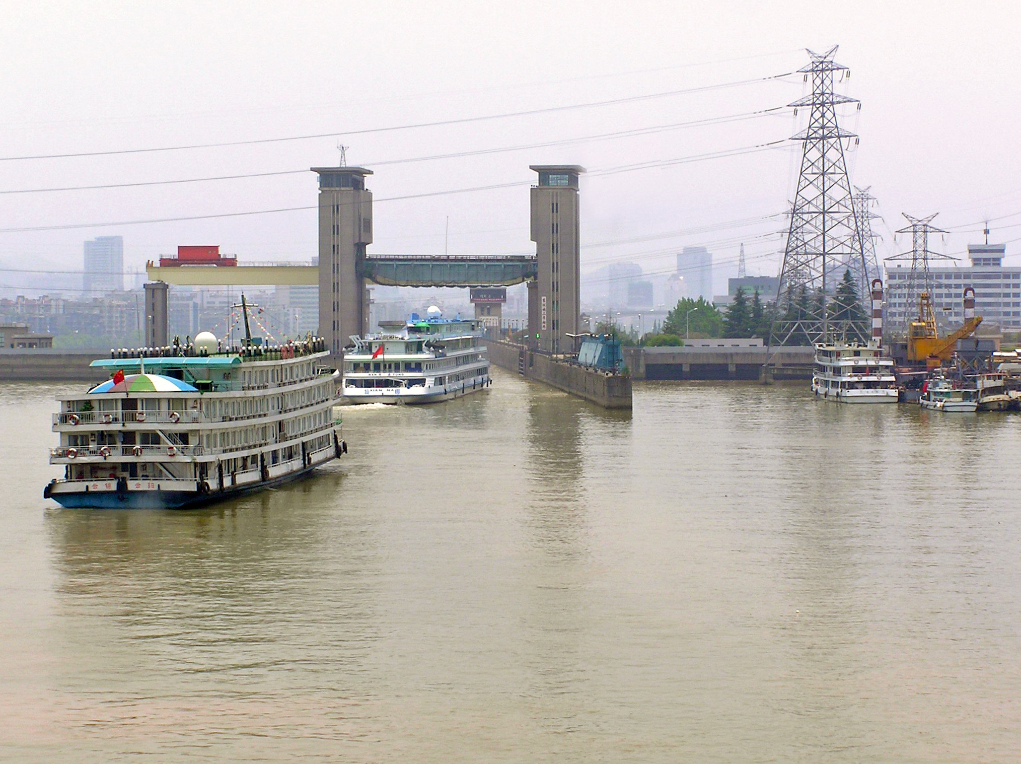 Gezhouba-Dam - Yichang (China) - Left side, entrance in lock 2